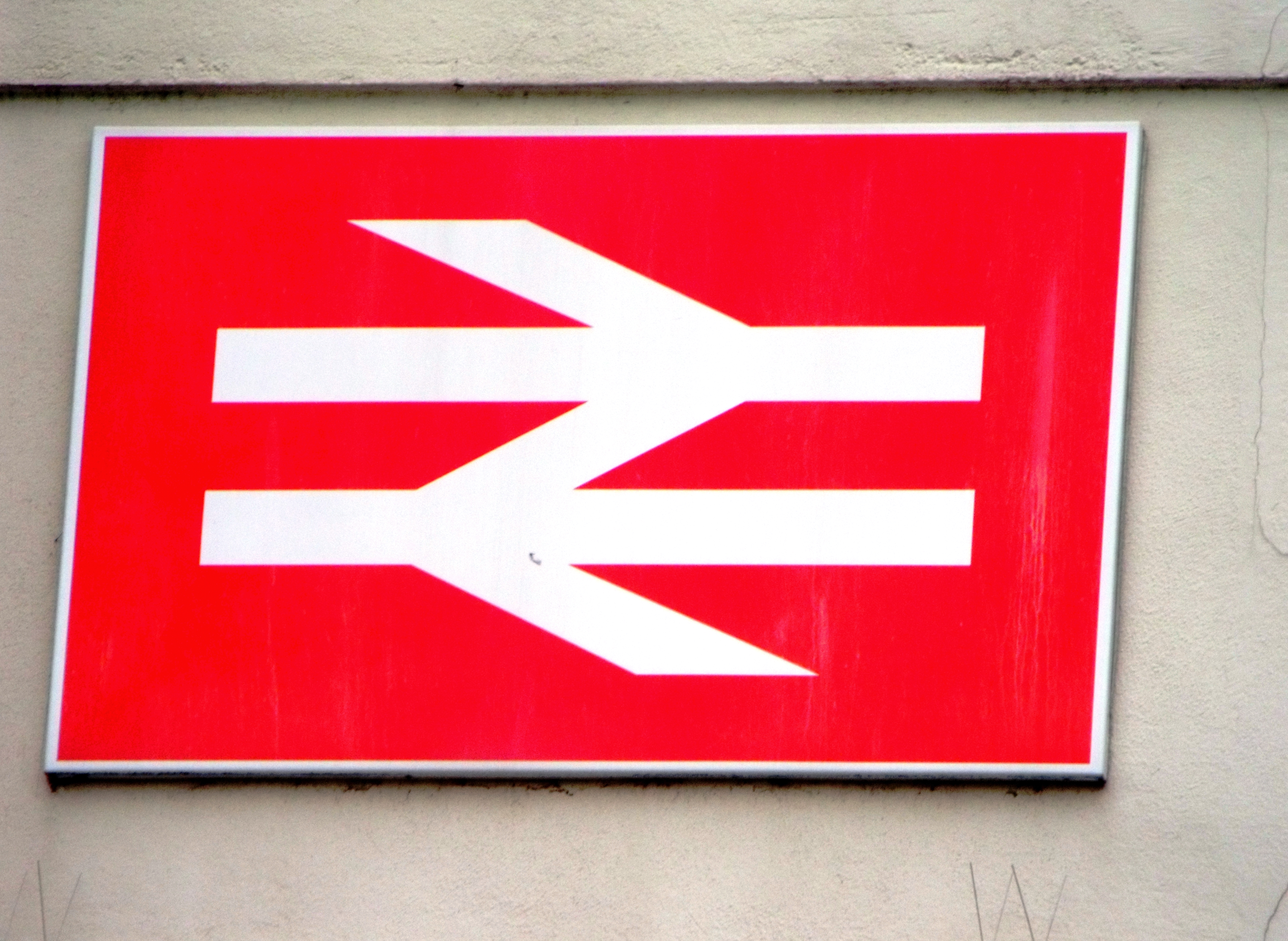 Although the railways are now privatised in Britain, this symbol devised in the 1960's is still used for to symbolize railway stations. This one is at London Road Station, Brighton.